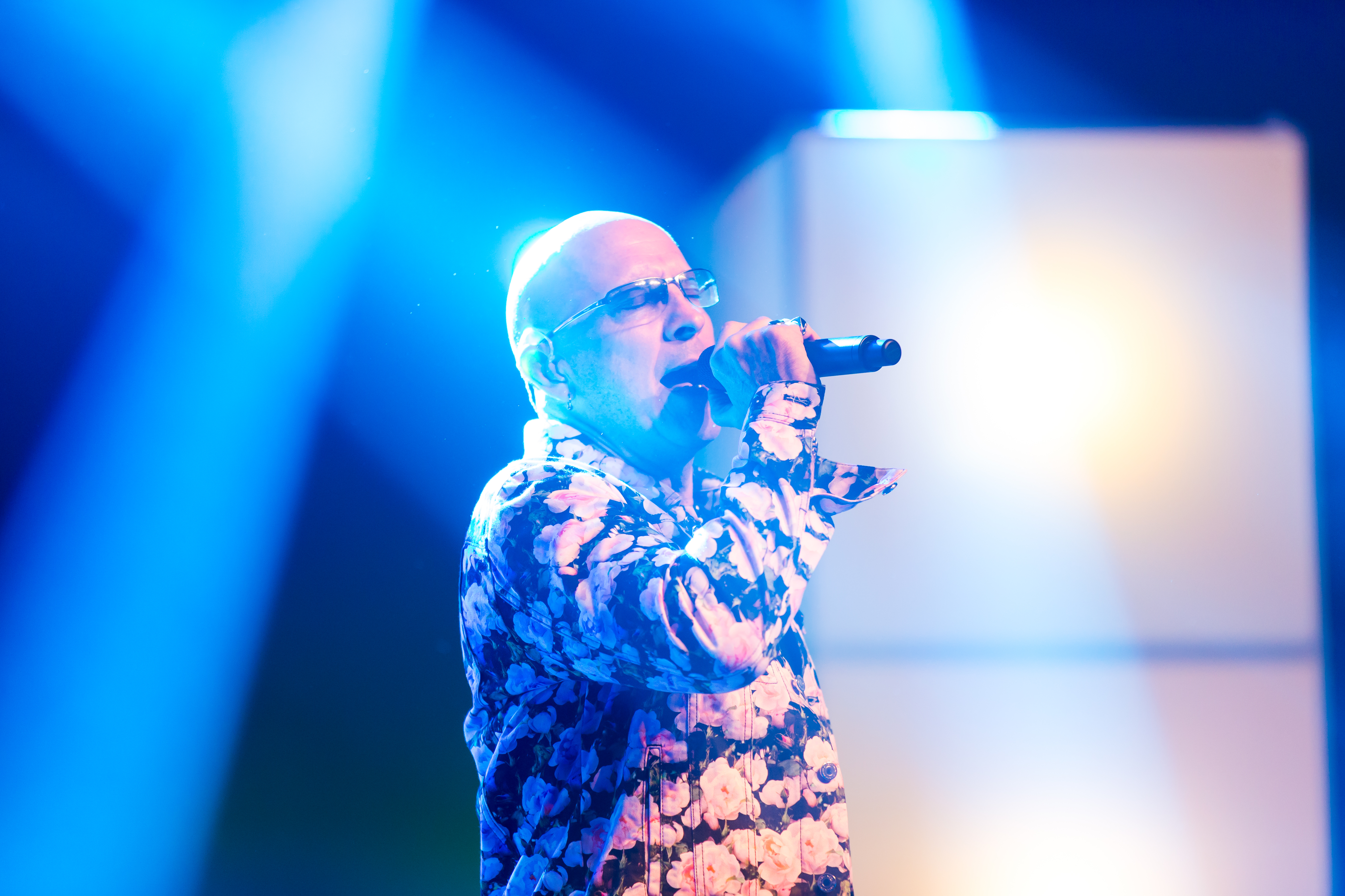 RPR1 90er Festival Maimarkthalle Mannheim Eloy, LayZee aka Mr. President, Nana, Right Said Fred, Snap! feat. Penny Ford during RPR1 90er Festival at Maimarkthalle, Mannheim, Baden-Württemberg, Germany on 2015-03-14, Photo: Sven Mandel